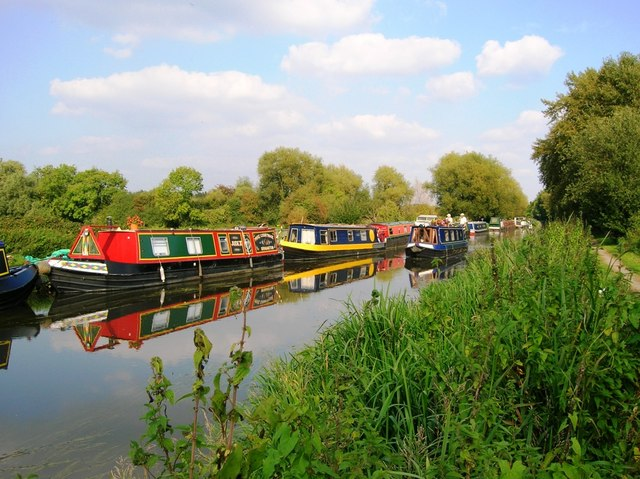 Kennet and Avon Canal near Southcote Looking downstream towards Southcote Lock.